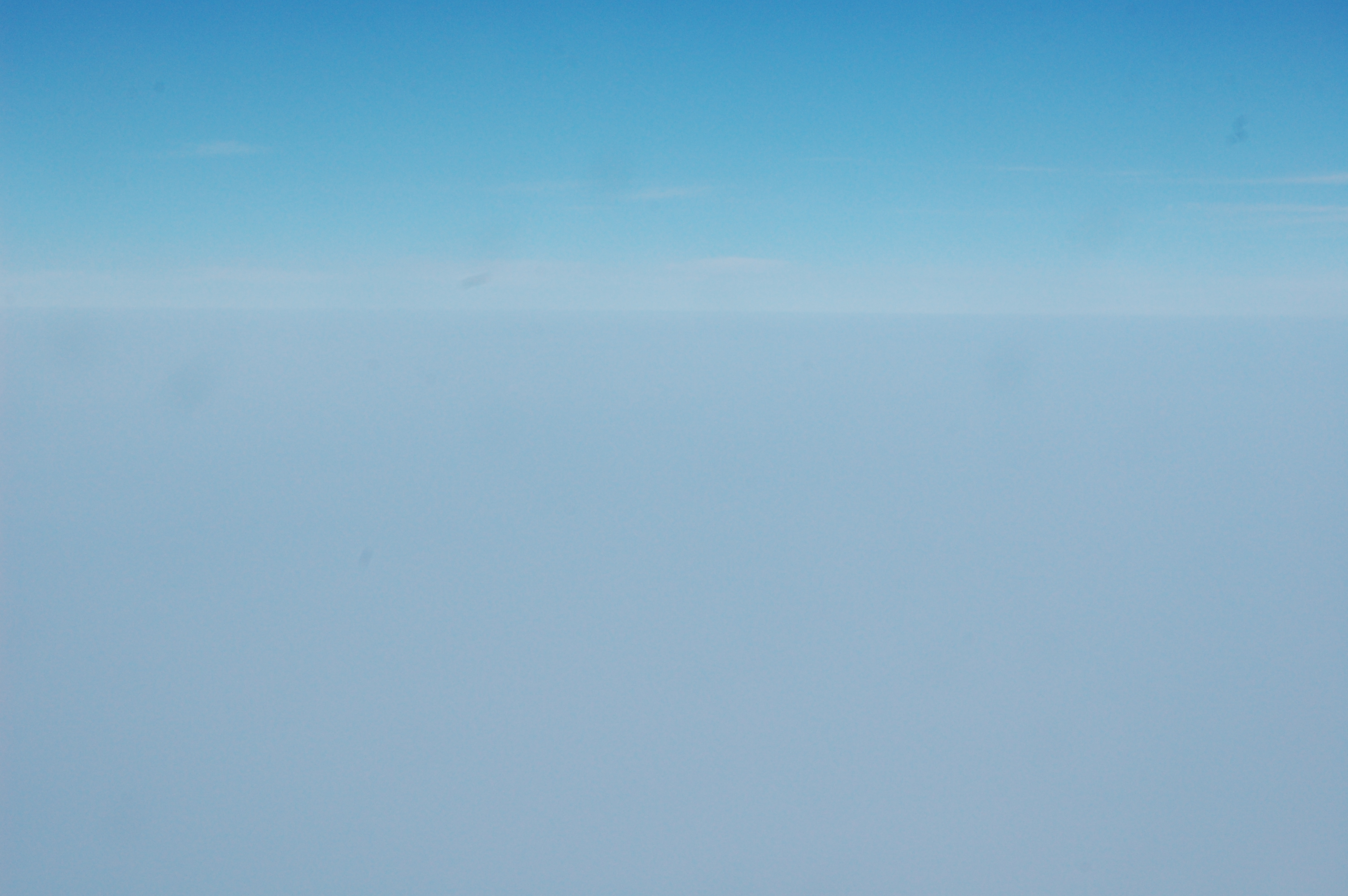 Smoke Layer Border at 7-8 km (South of Moskow region)